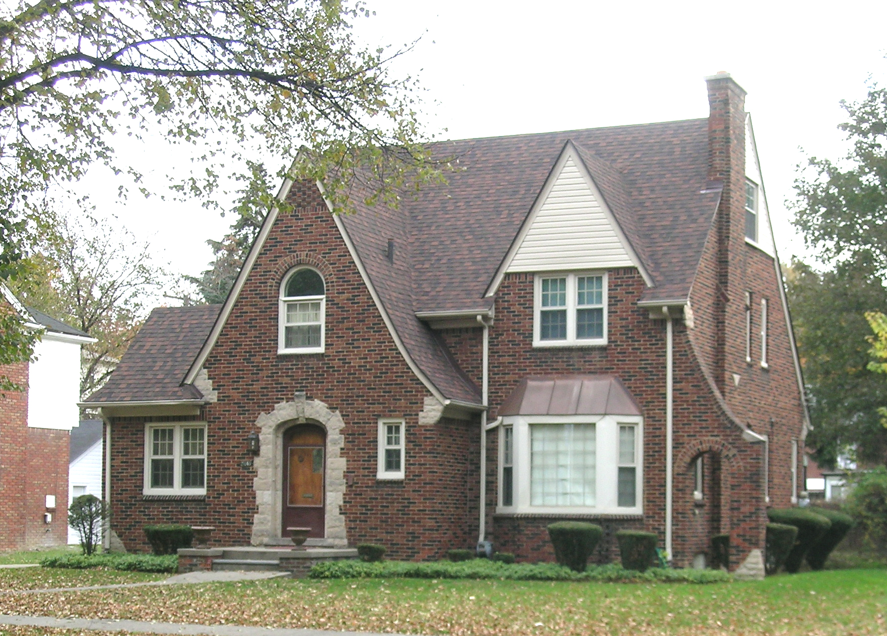 House on Glastonbury in Rosedale Park Historic District Detroit